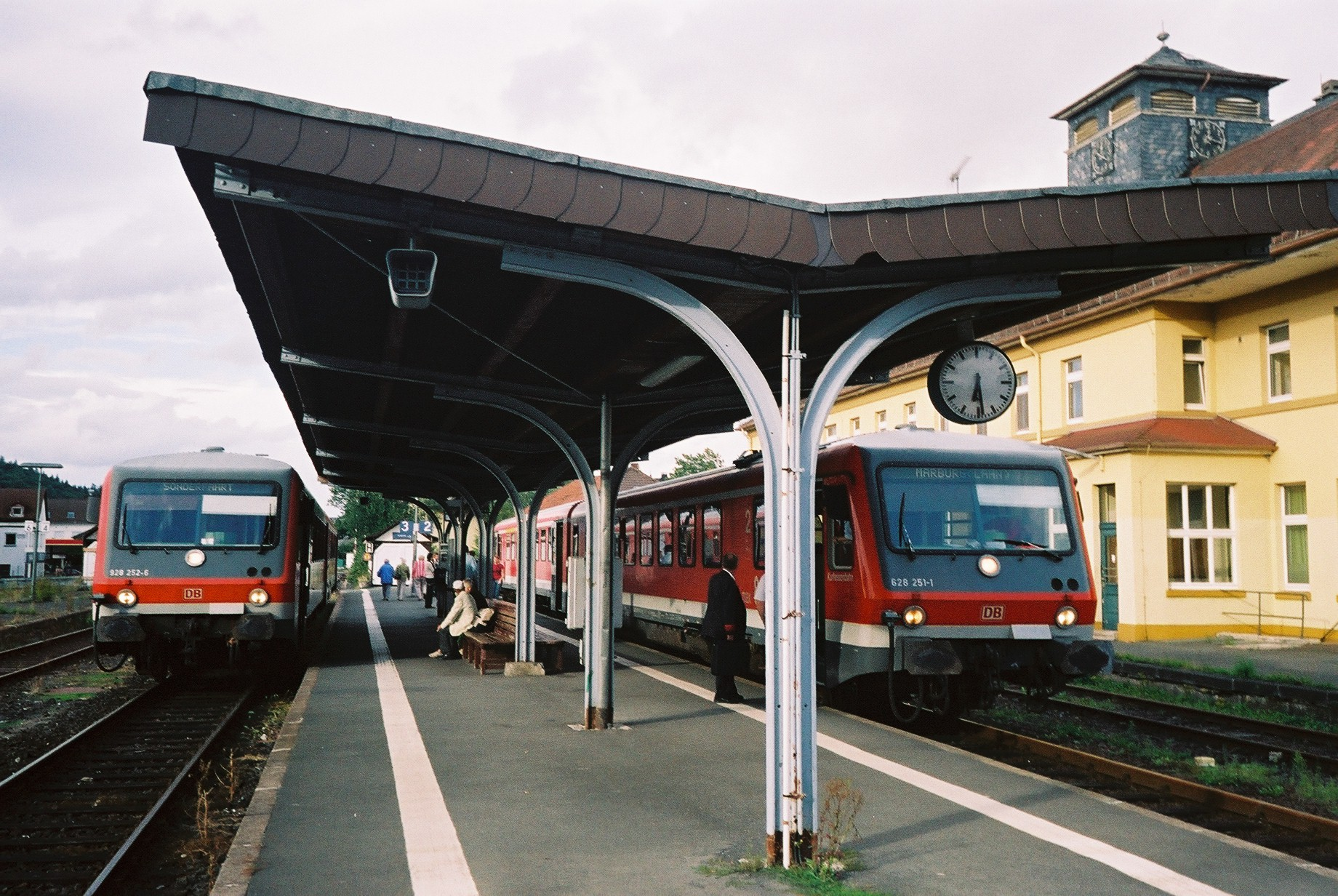 Railway station in Frankenberg (Eder), Hesse, Germany, at the end of the Burgwaldbahn line from Marburg. On the right side the regular train from/to Marburg, on the left an extra train for tourists towards Herzhausen on the otherwise inaktive line between Frankenberg and Korbach.